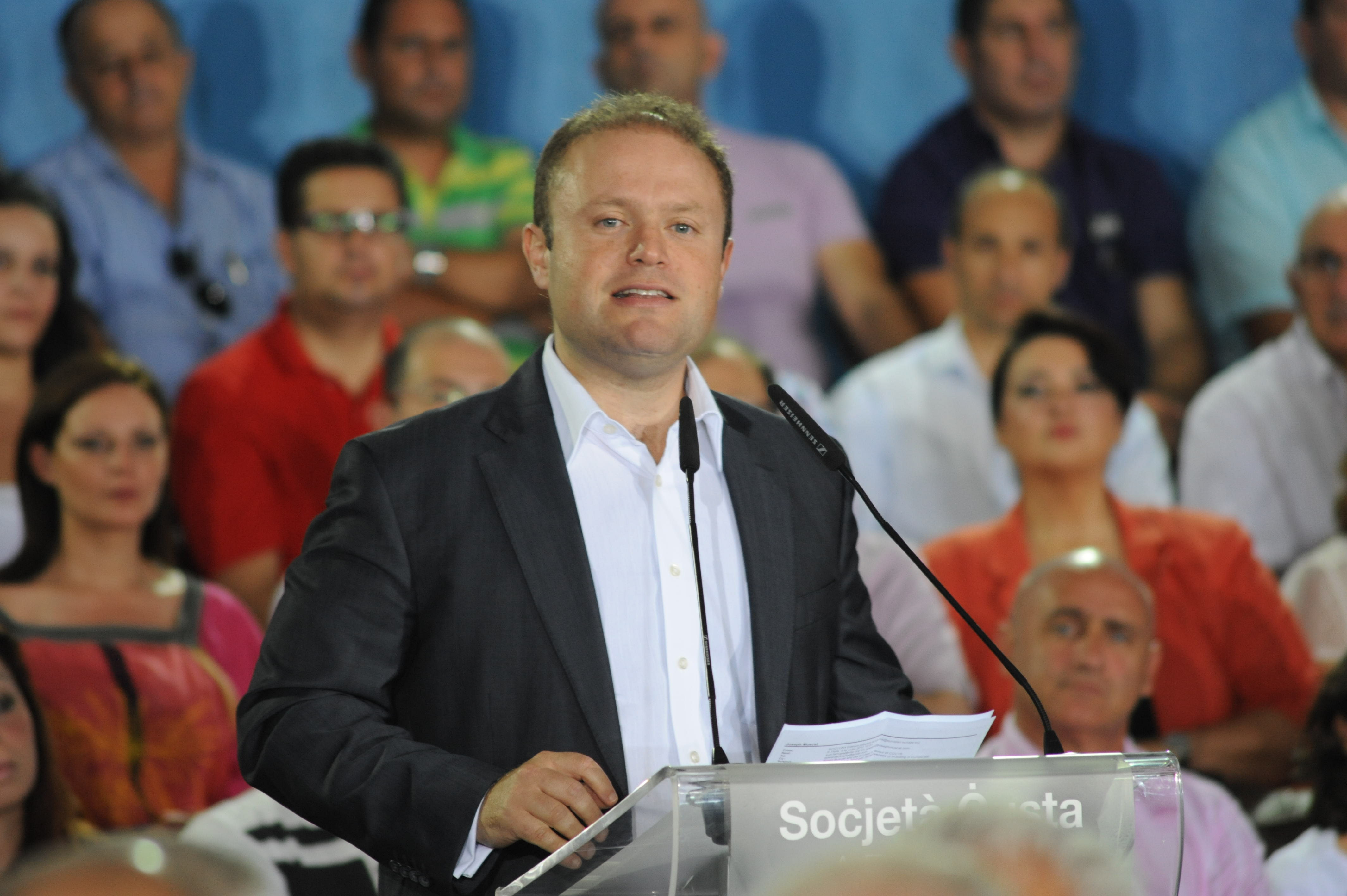 Joseph Muscat addressing the crowd during a Partit Laburista Sunday event